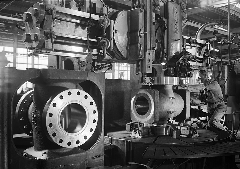 Title: [Worker machining hole flange, Cameron Iron Works, Houston, TX] Creator: Richie, Robert Yarnall Date: February 1948 Part Of: Robert Yarnall Richie Photograph Collection Place: Houston, Texas Physical Description: 1 negative: film, black and white; 13 x 17.9 cm. File: ag1982_0234_3003_30_cameronironwk_sm_opt.jpg Rights: Please cite Southern Methodist University, Central University Libraries, DeGolyer Library when using this image file. A high-quality version of this file may be obtained for a fee by contacting . For more information, see: View the Robert Yarnall Richie Photograph Collection